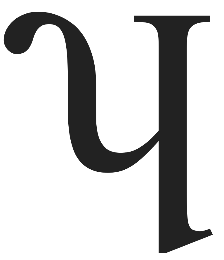 Doulos SIL glyph for ʮ.